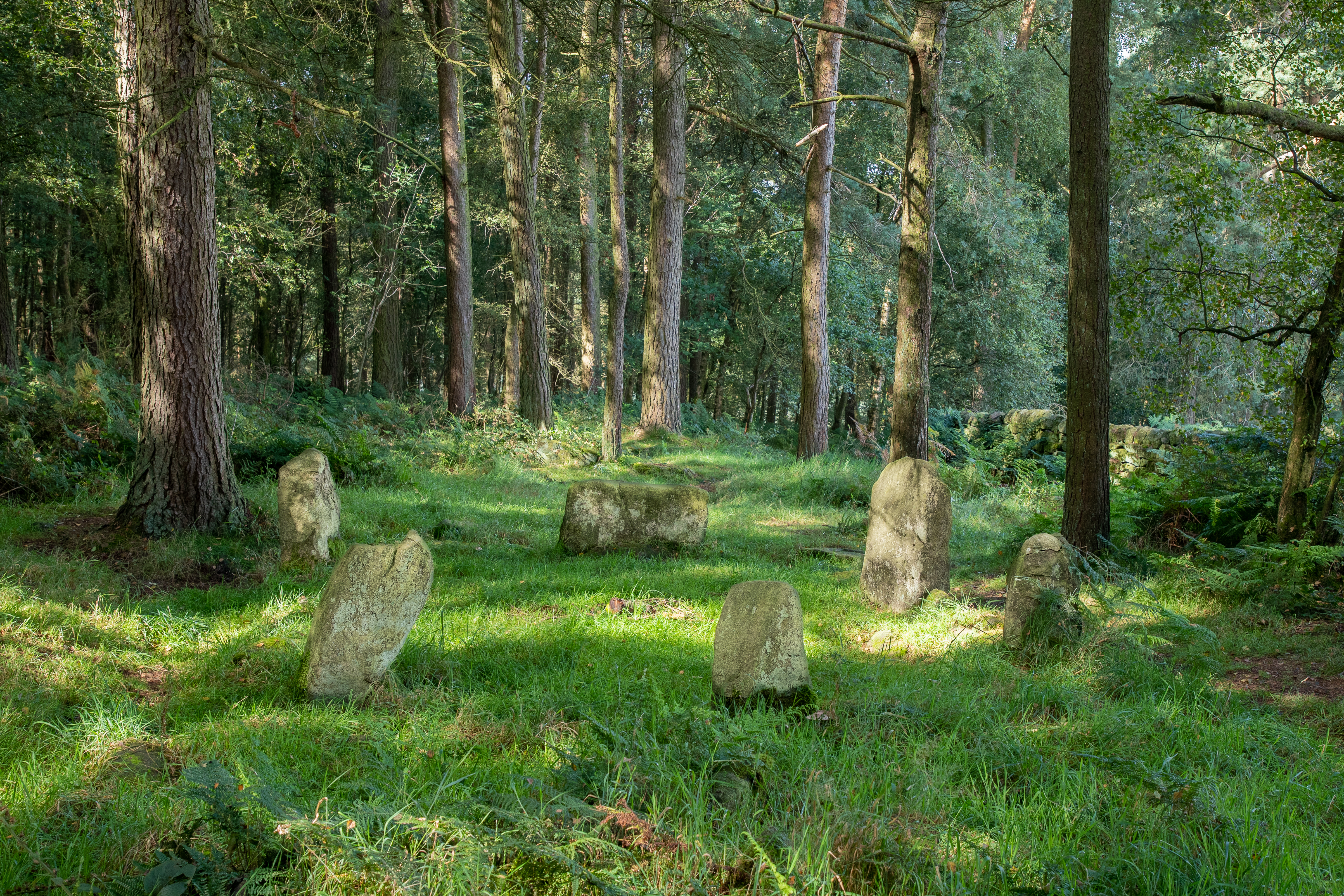 Doll Tor stone circle, Birchover, Derbyshire Wikidata has entry Q5289184 with data related to this item.